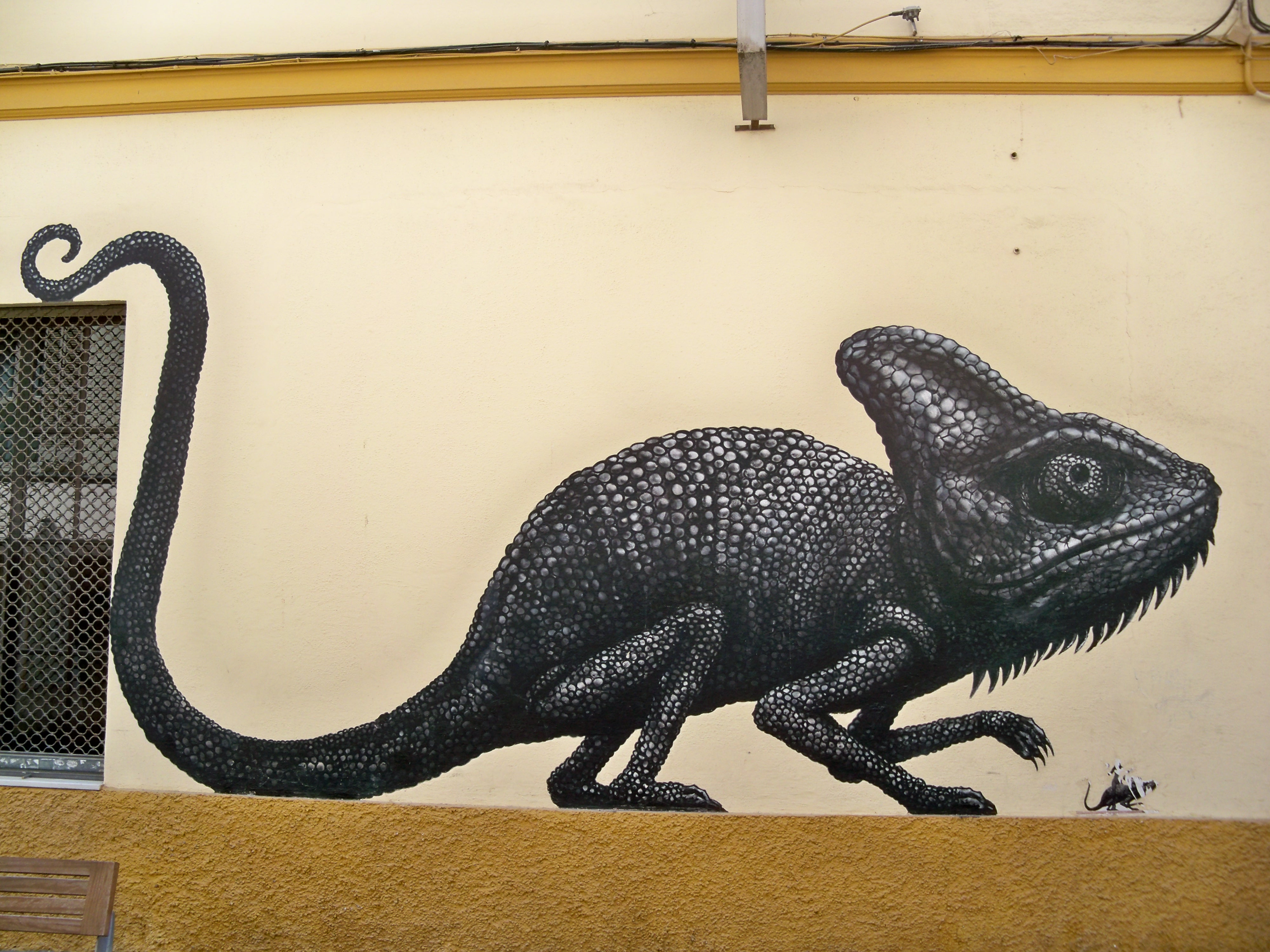 Graffiti of a chameleon (2013) by the street artist ROA, in Casas de Campos Street, Málaga, Spain.